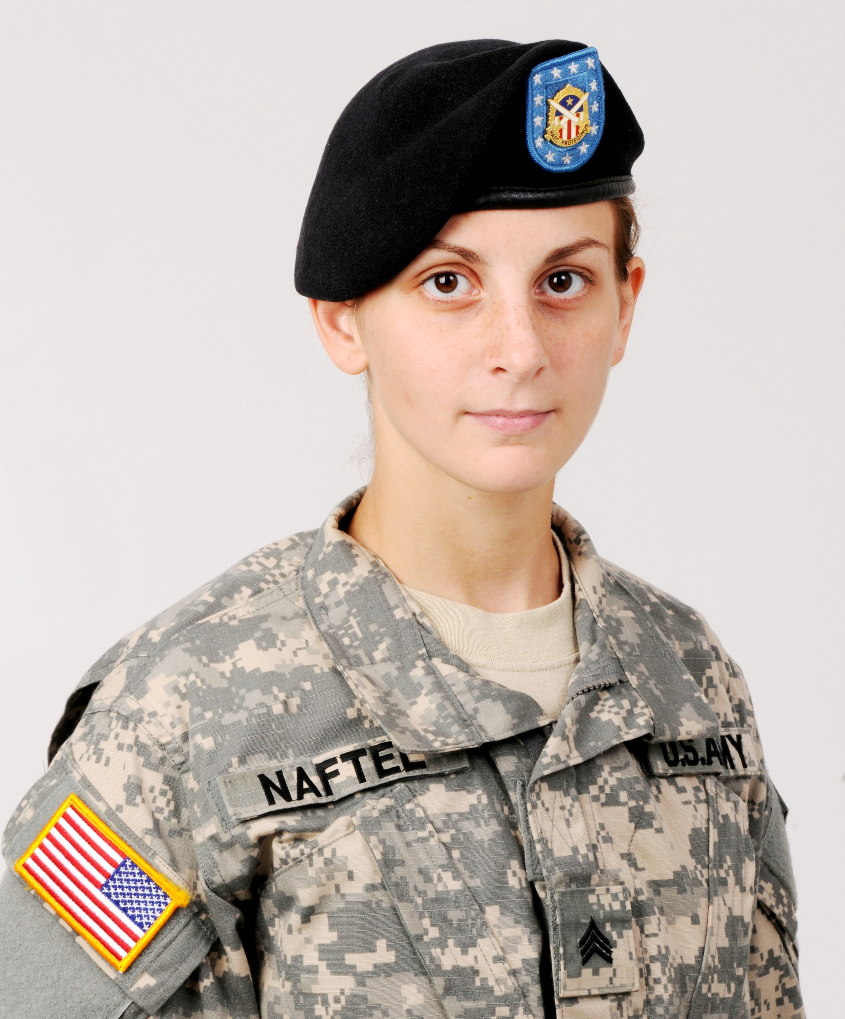 A United States Army soldier wearing a black beret.